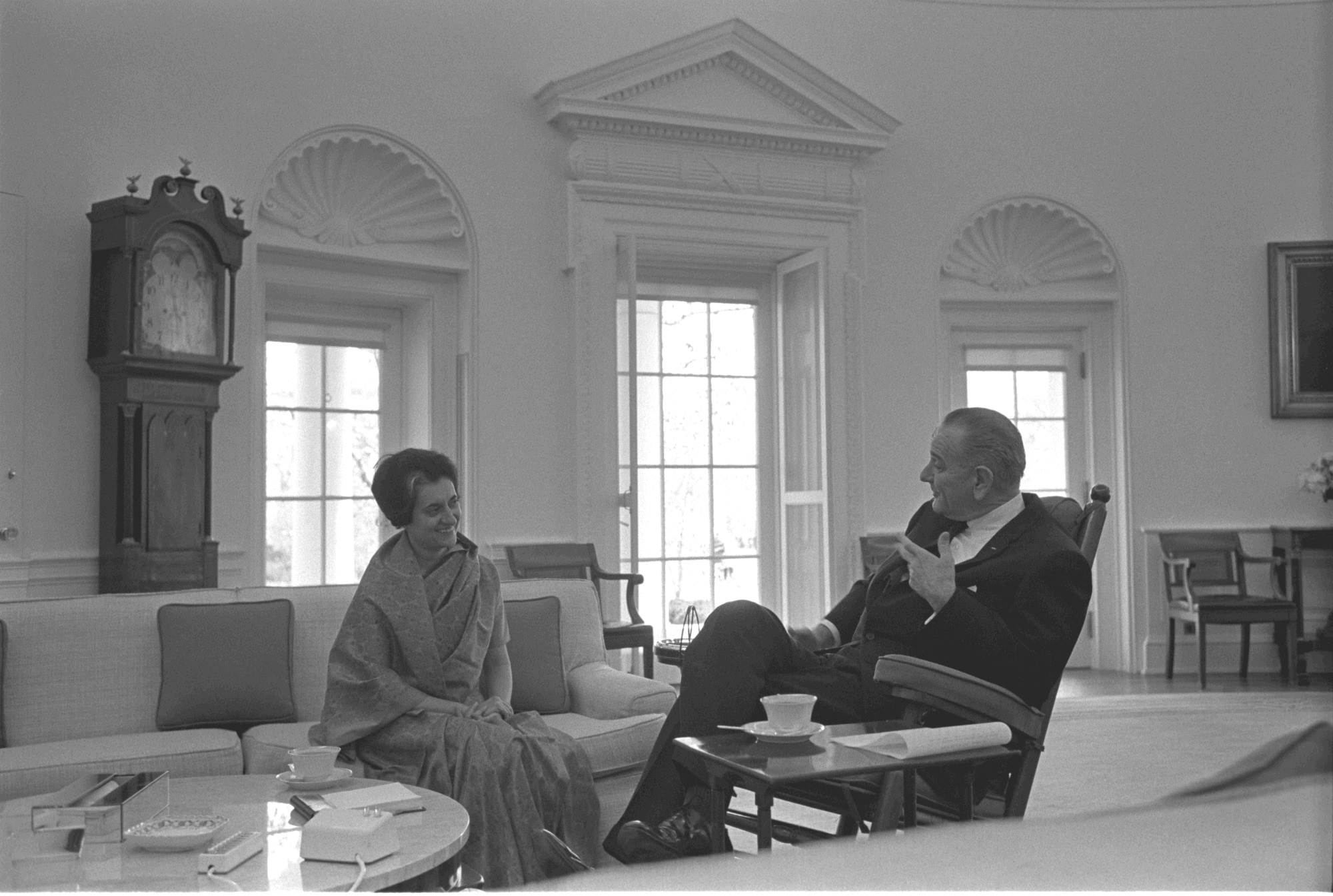 Meeting between Indian Prime Minister Indira Gandhi and President Lyndon B. Johnson in the Oval Office